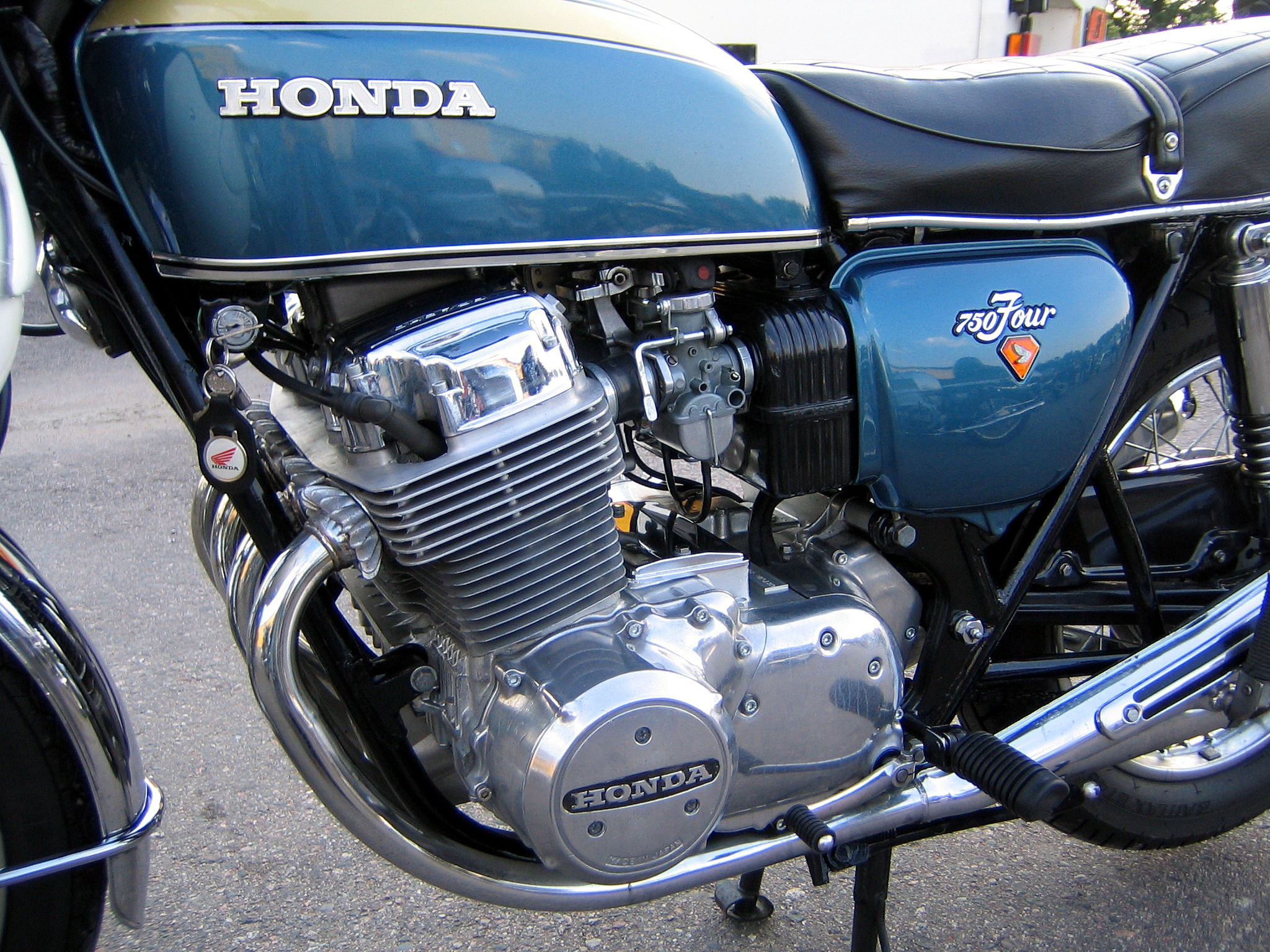 Honda CB 750 K1 motorcycle engine close-up. Year of production around 1970.